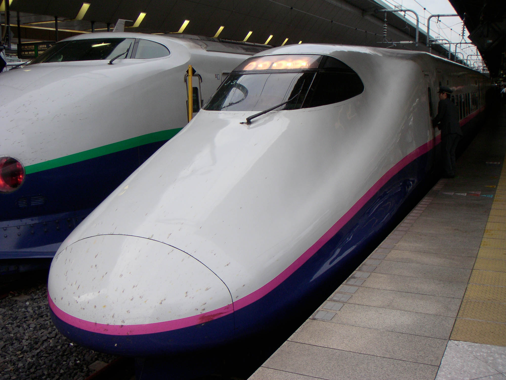 E2 series Shinkansen train at Tokyo Station, Tohoku Shinkansen